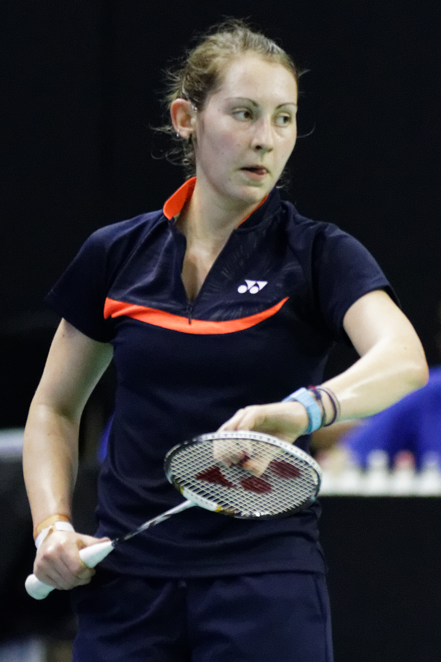 2013 French open. Women's singles quarterfinal. Kirsty Gilmour vs Tai Tzu-ying.